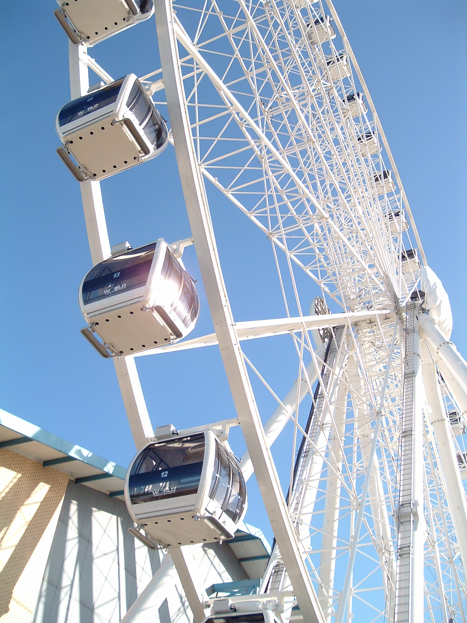 A view of the south side of the 54 metre high Yorkshire Wheel, that was installed at the National Railway Museum in York. It was sited 53°57′35.81″N 1°5′44.42″W / 53.9599472°N 1.0956722°W next to and in line with the southern wall of the museum's Great Hall. Construction started in March 2006 and the wheel operated from 12 April 2006 until 2 November 2008, being dismantled shortly afterwards.